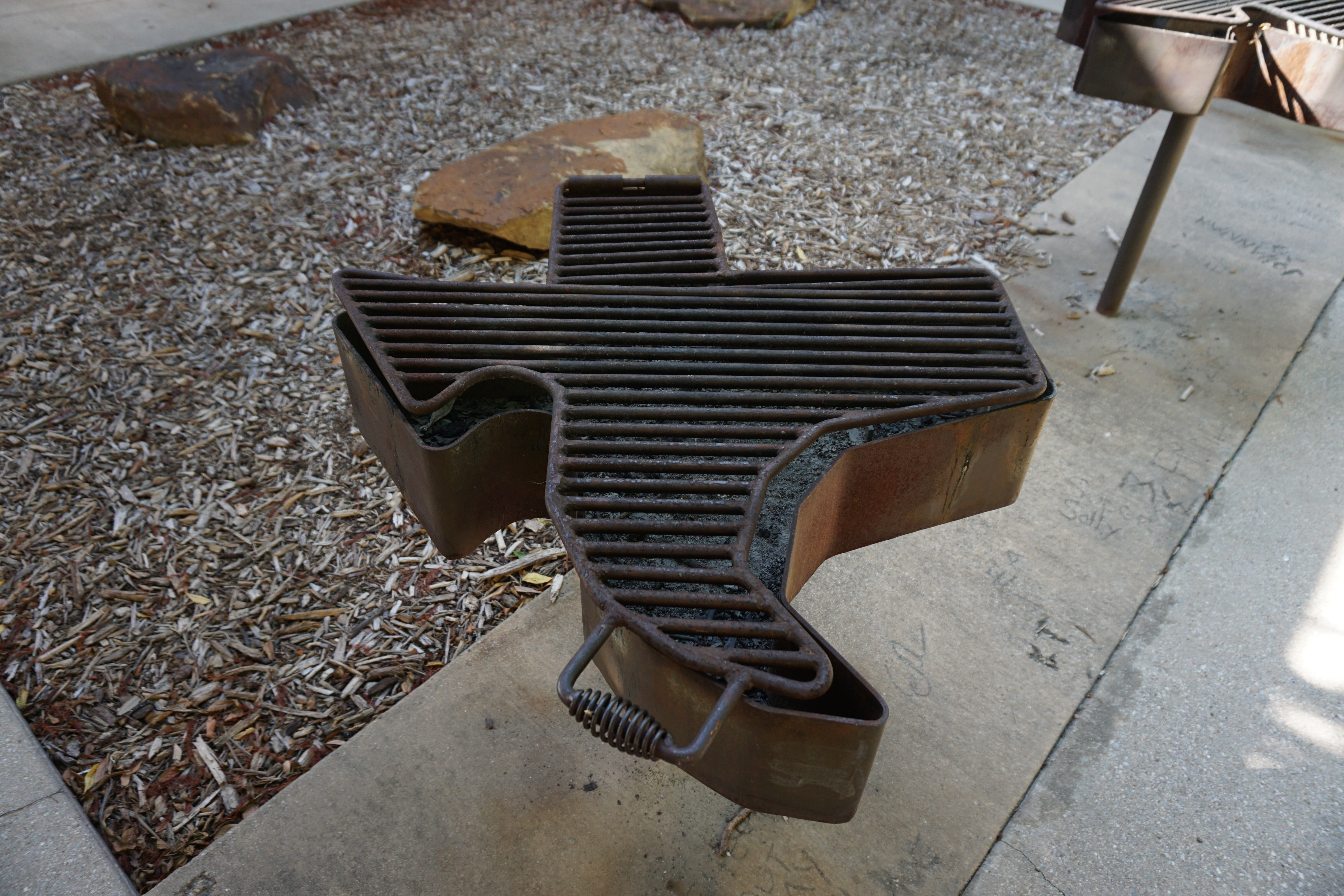 A barbecue grill outside Victory Hall on the campus of the University of North Texas in Denton, Texas (United States).